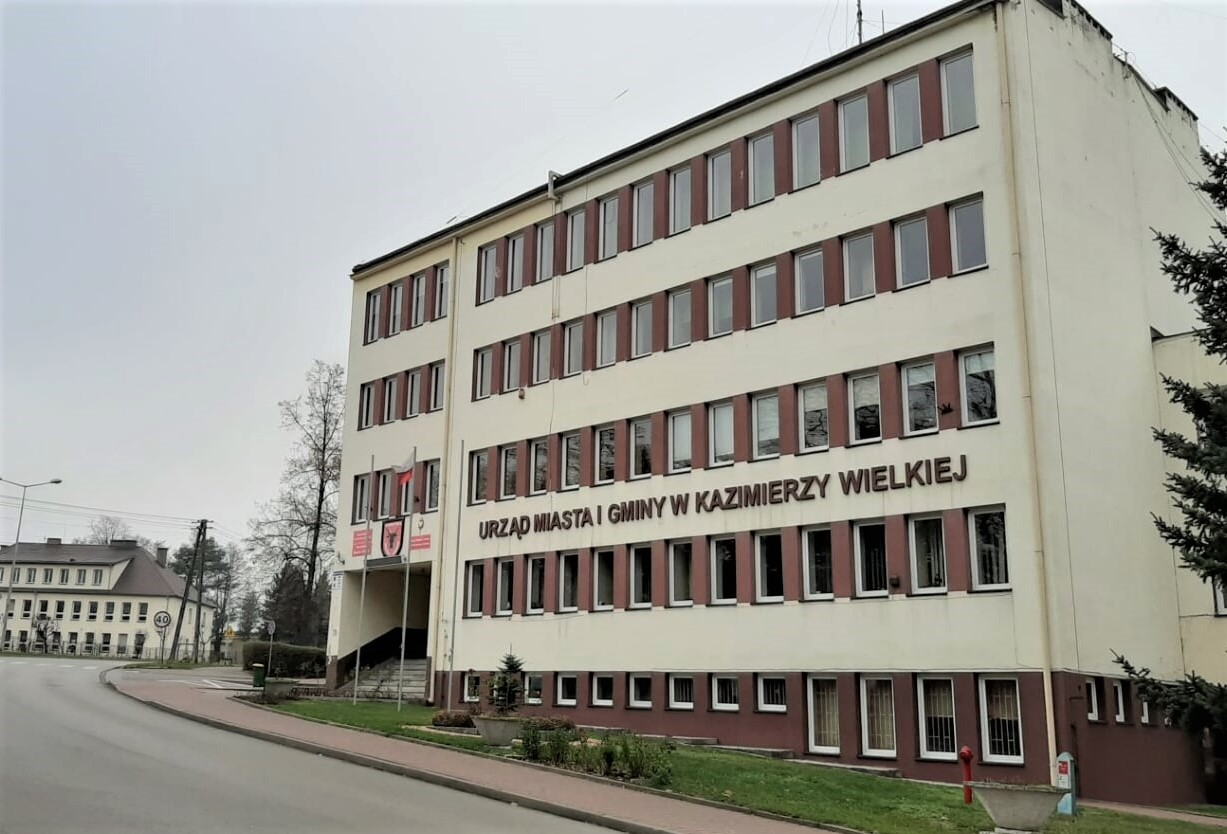 City Council of Kazimierza Wielka